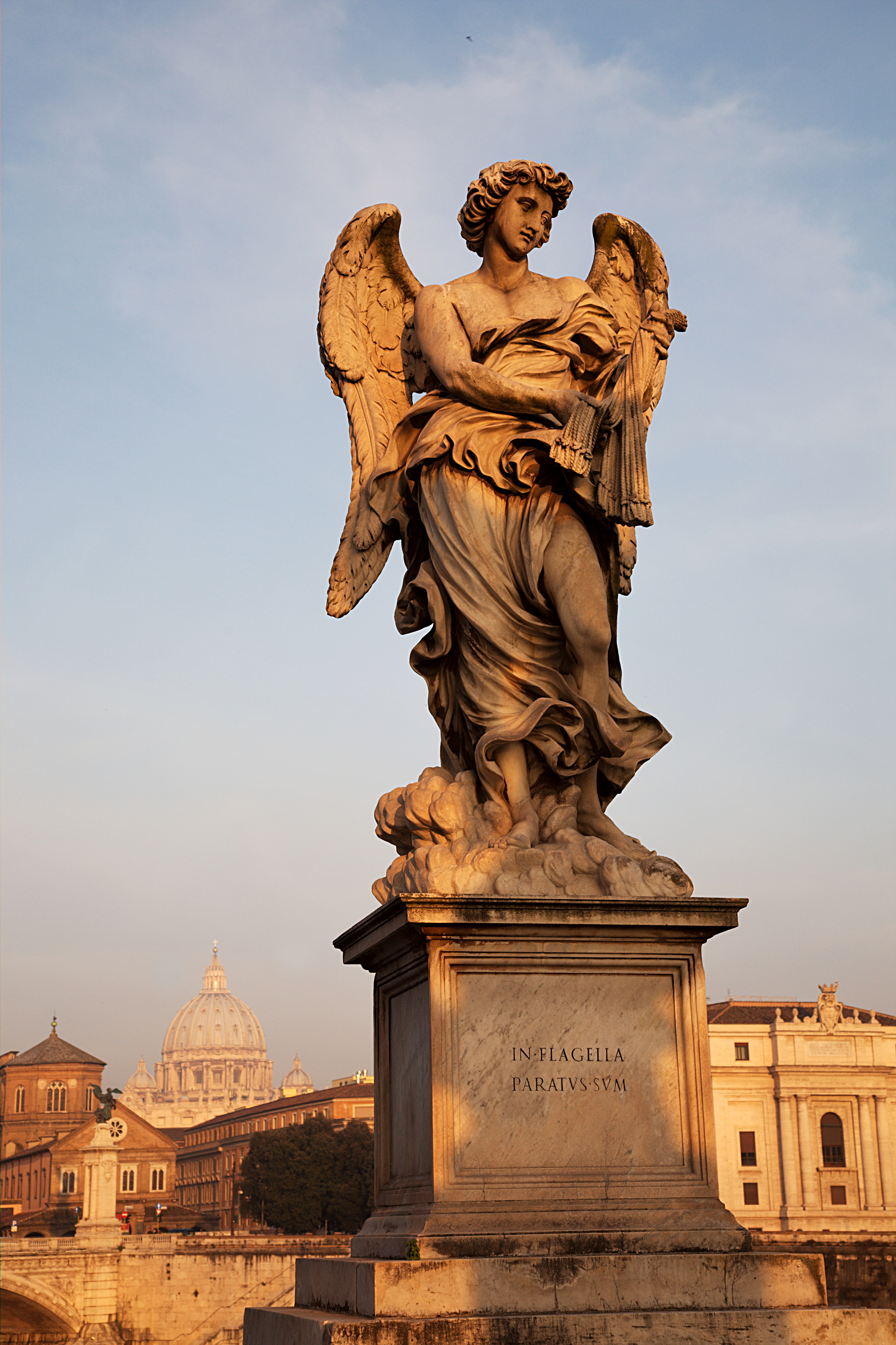 Angel on the western side of Ponte_Sant'Angelo during sunrise